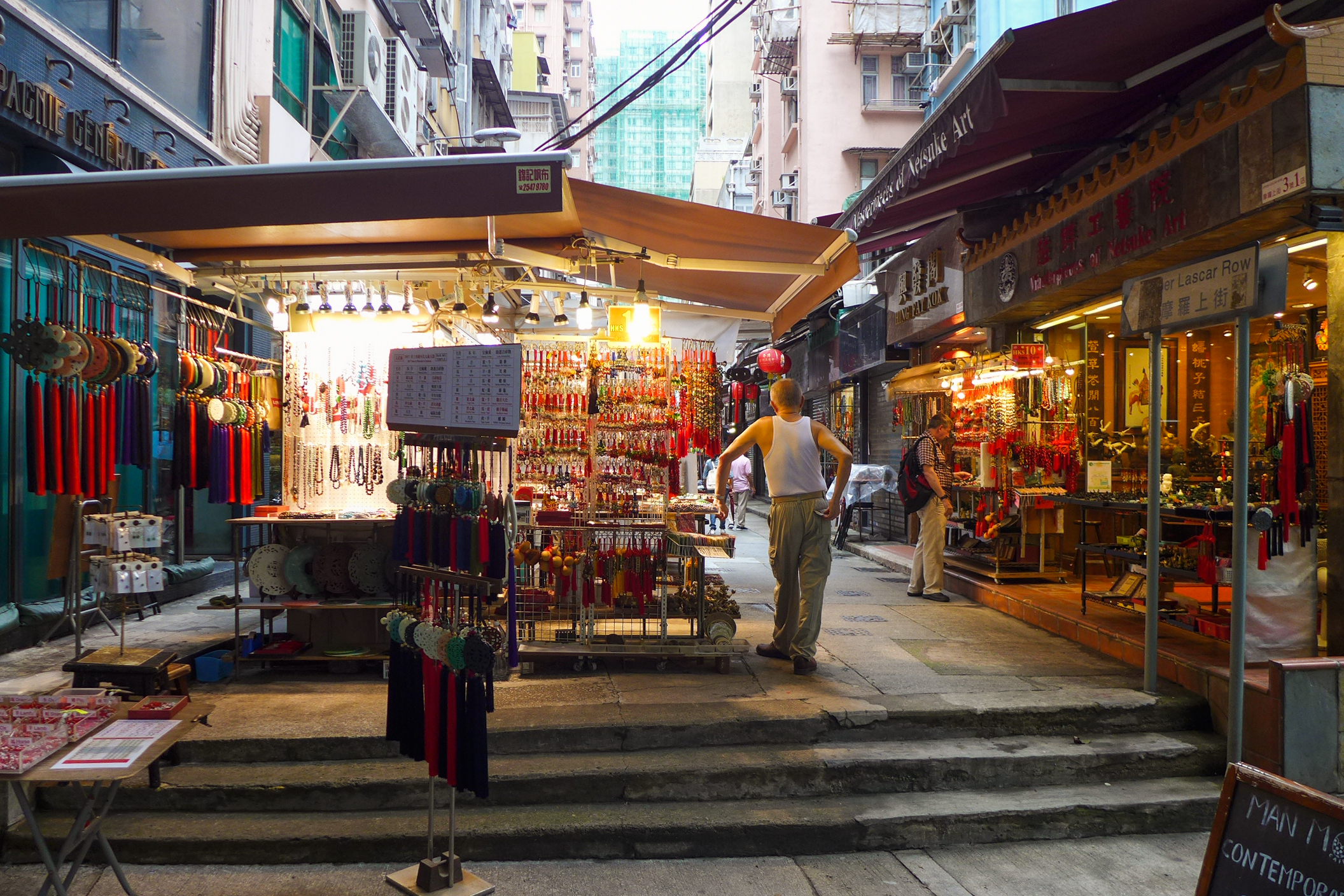 Upper Lascar Row